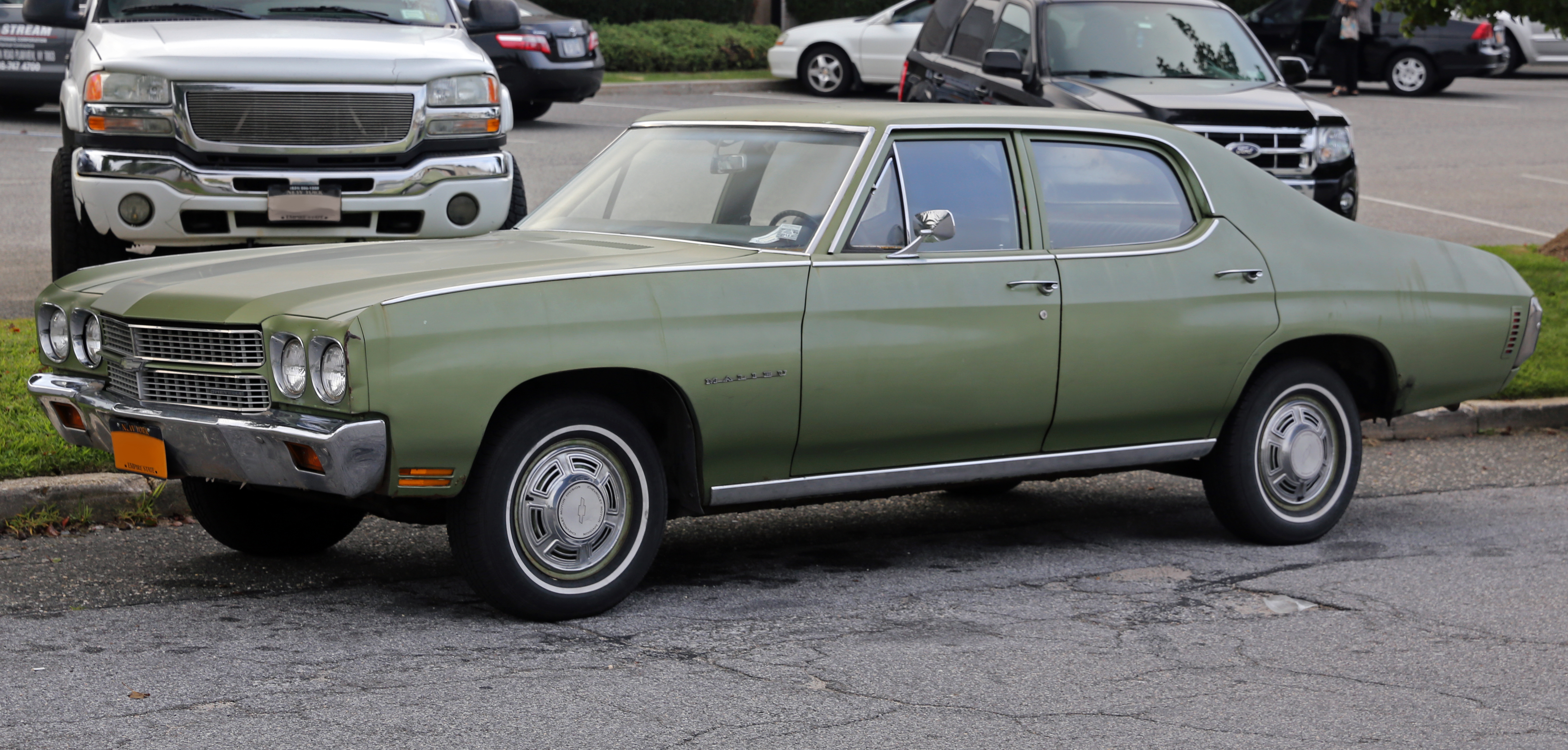 A 1970 Chevrolet Chevelle Malibu four-door sedan (model 13569), with the 250 (4.1L) inline-six with 155hp. Built in Arlington.